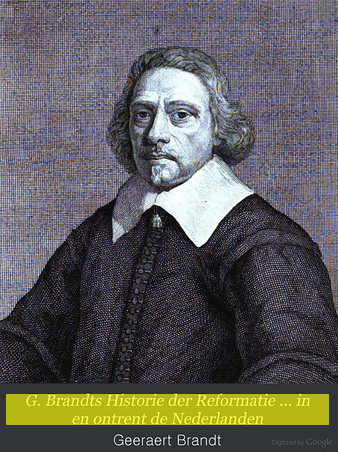 Historie der Reformatie ... in en ontrent de Nederlanden, 1704, Geeraert Brandt (1626-1685)